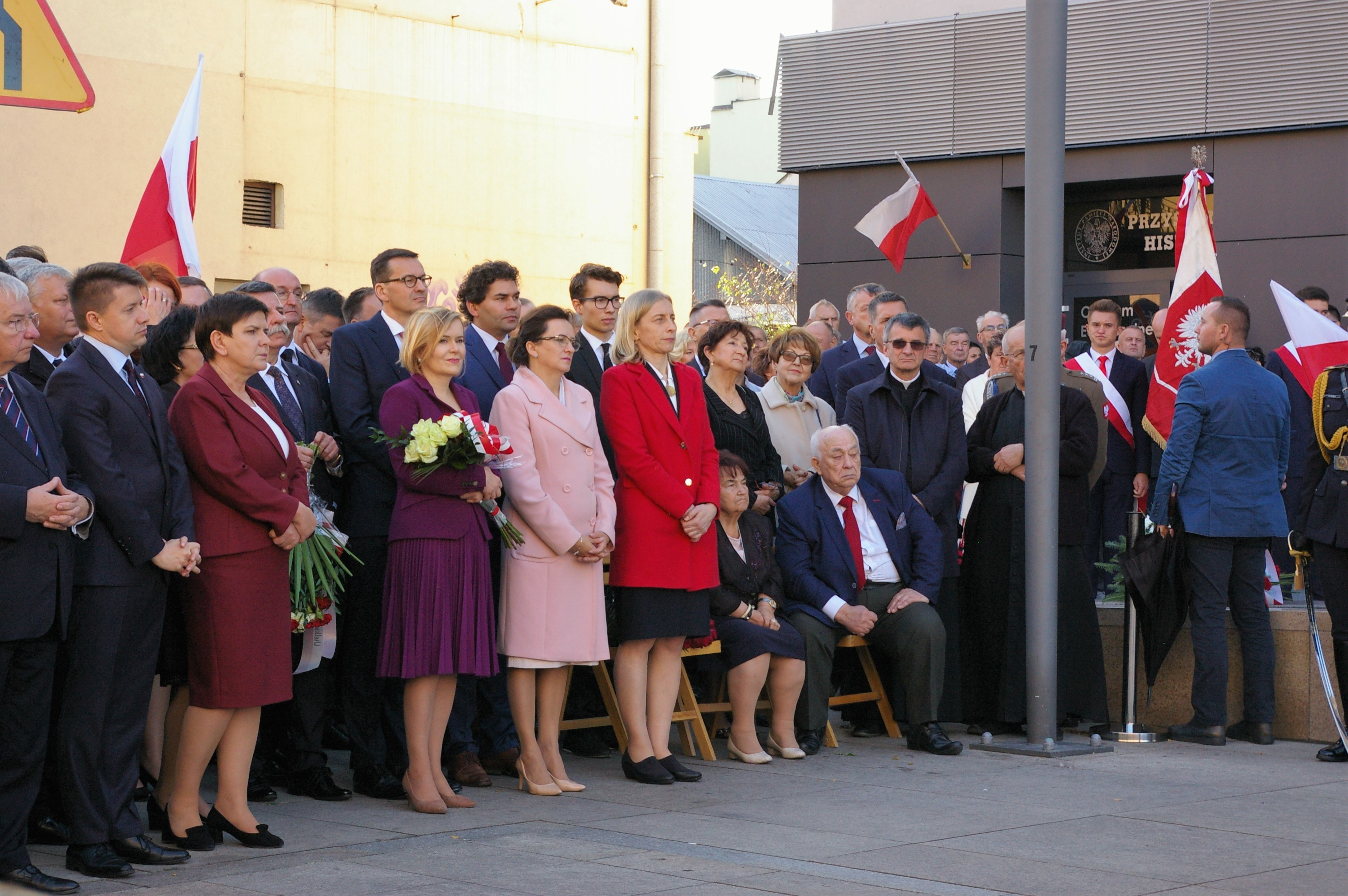 Polish parliamentarians and family during the unveiling of the monument of Przemysław Gosiewski in Kielce, October 27, 2019.